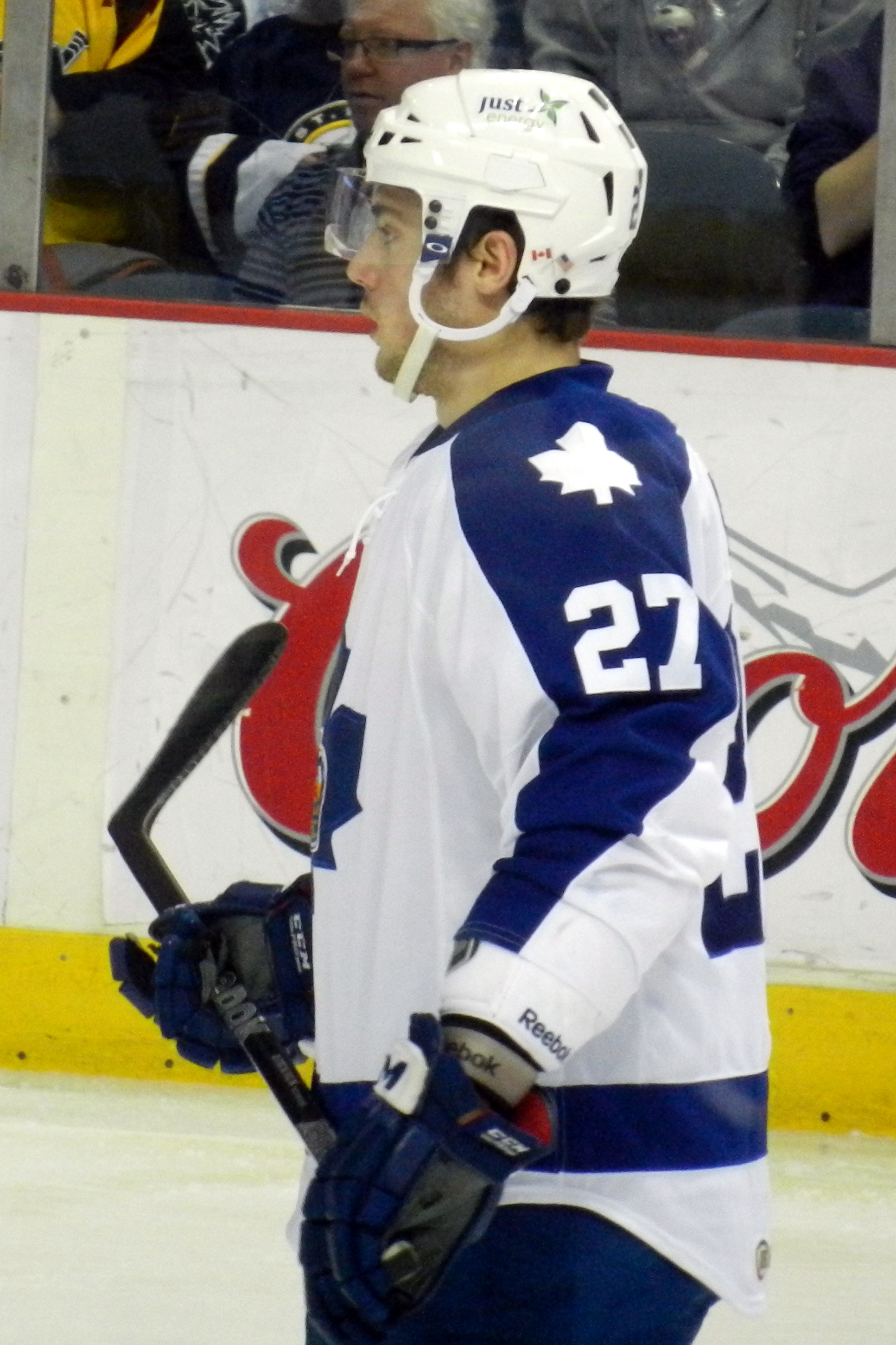 Jesse Blacker playing for the American Hockey League's Toronto Marlies